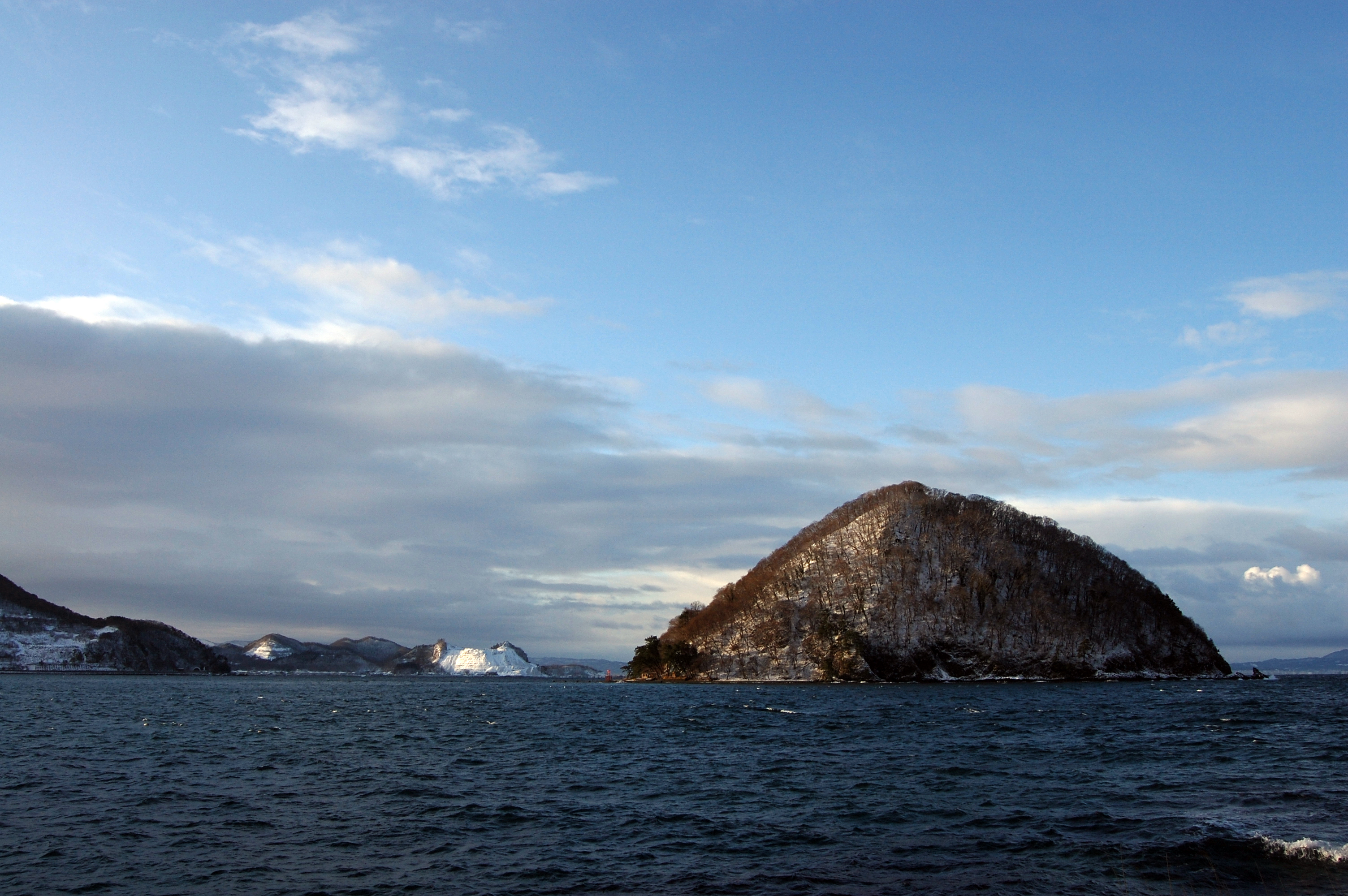 Yunoshima Island off the coast of Asamushi Onsen. Nikon D40